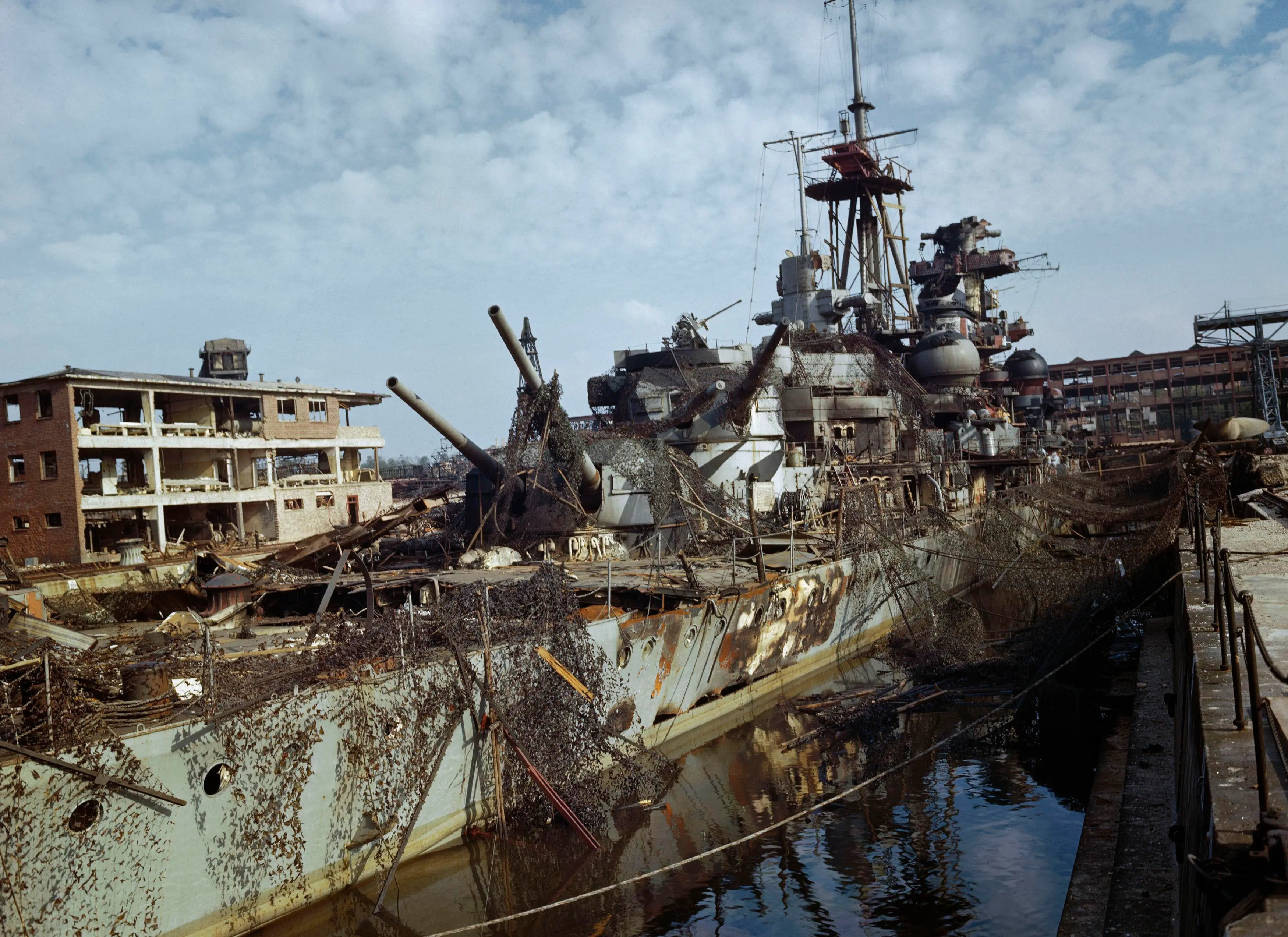 The German cruiser Admiral Hipper which was in dry dock at Kiel, Germany, when the harbour was captured by the Allies. Both the German attempts to camouflage her and the damage caused by Allied bombers can be seen.